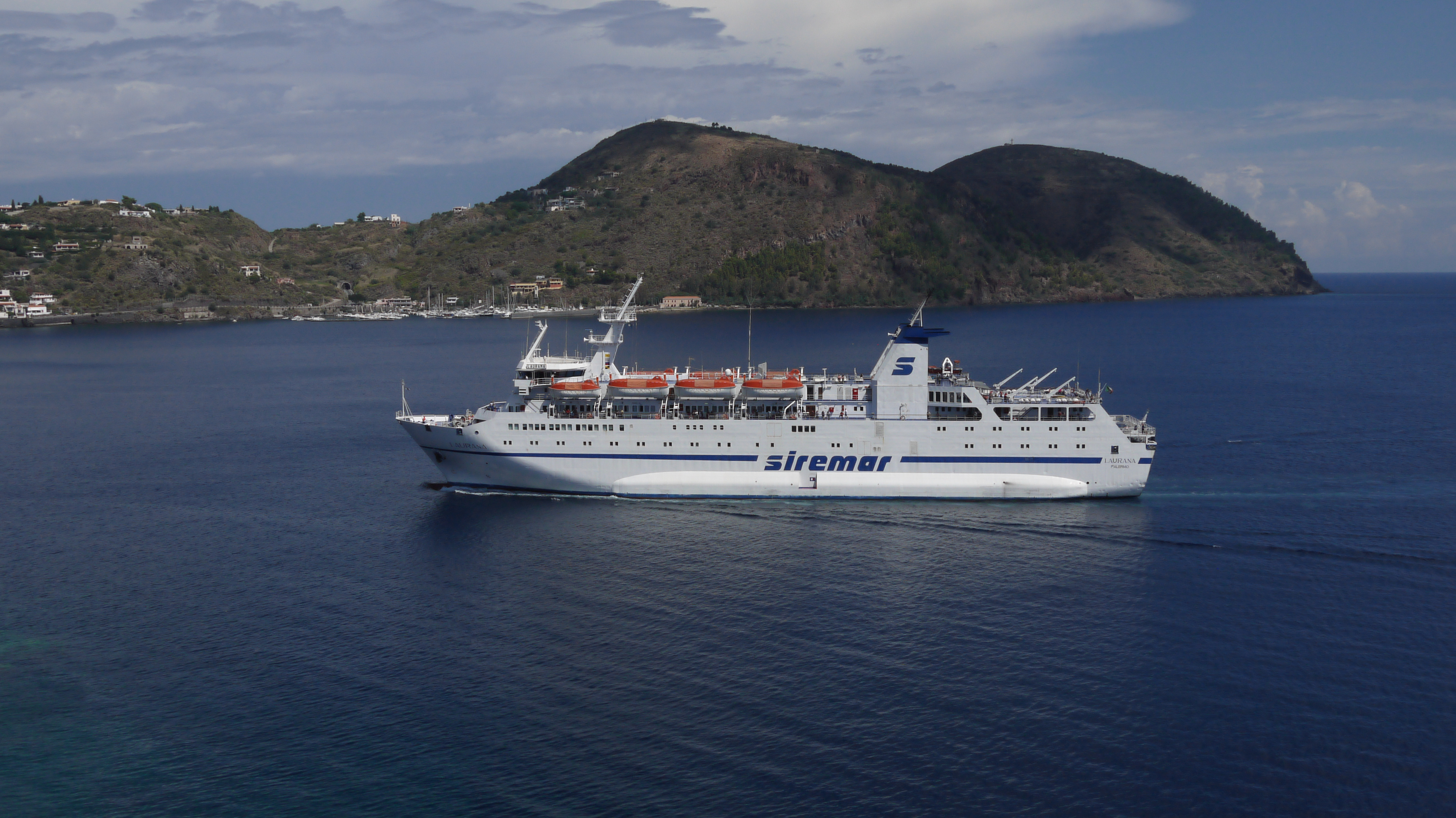 Siremar Ferry "Laurana" near Lipari habrour, summer 2014